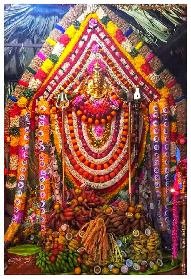 Maramangalam Sudalai Eswarar thirukovil